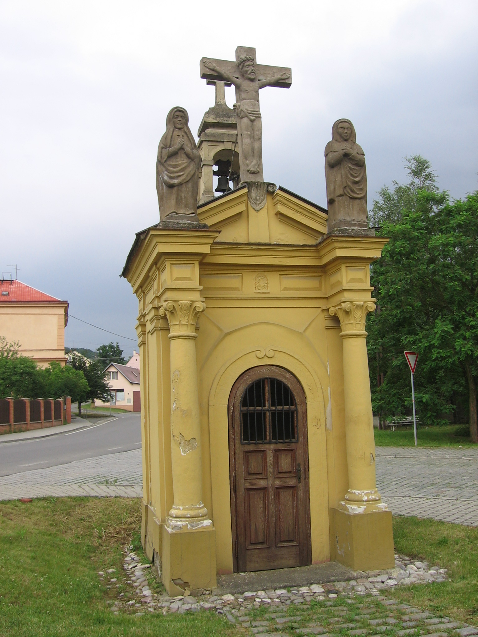 Radčice, village chapel